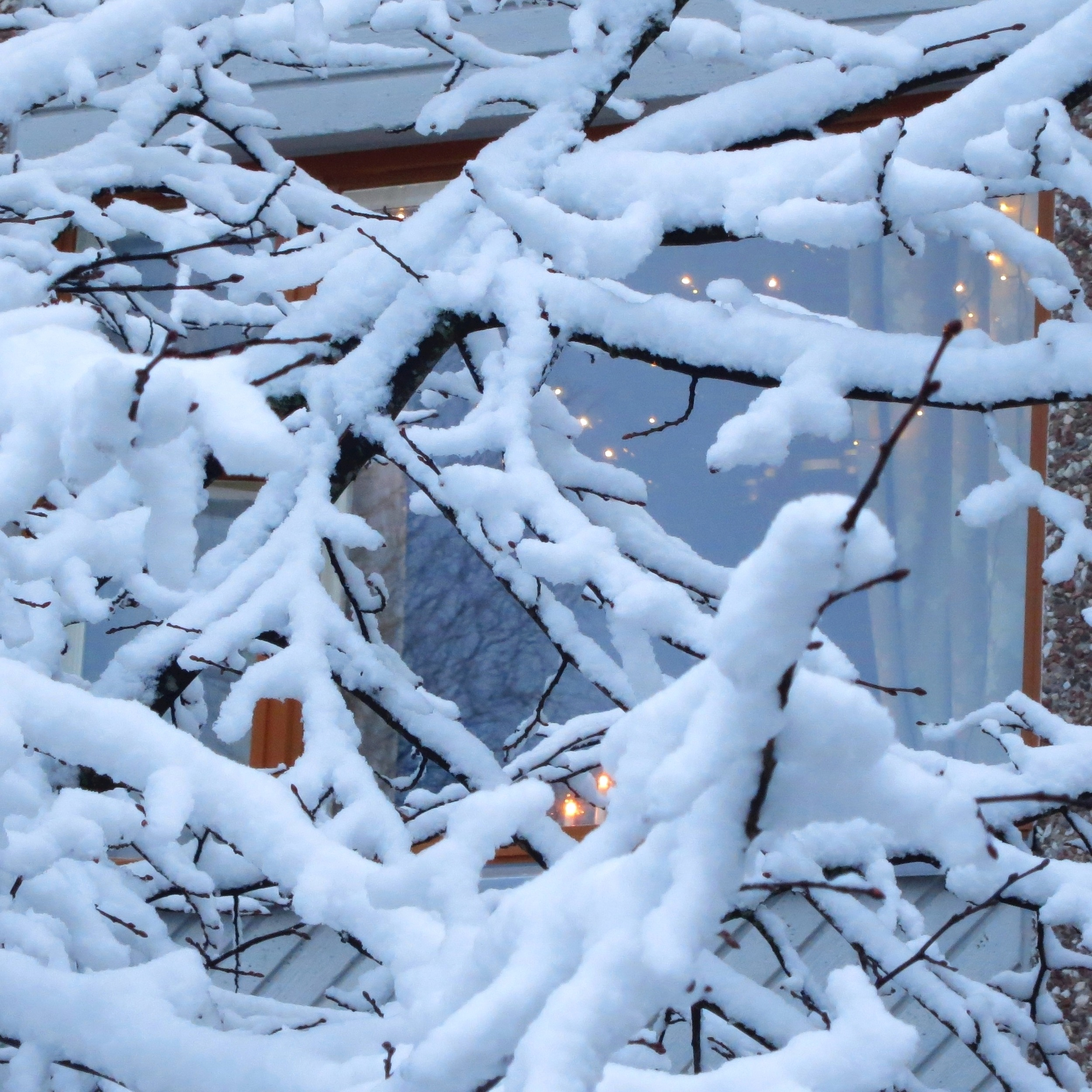 Tilia sp. branches in winter (Hyvinkää, Finland)